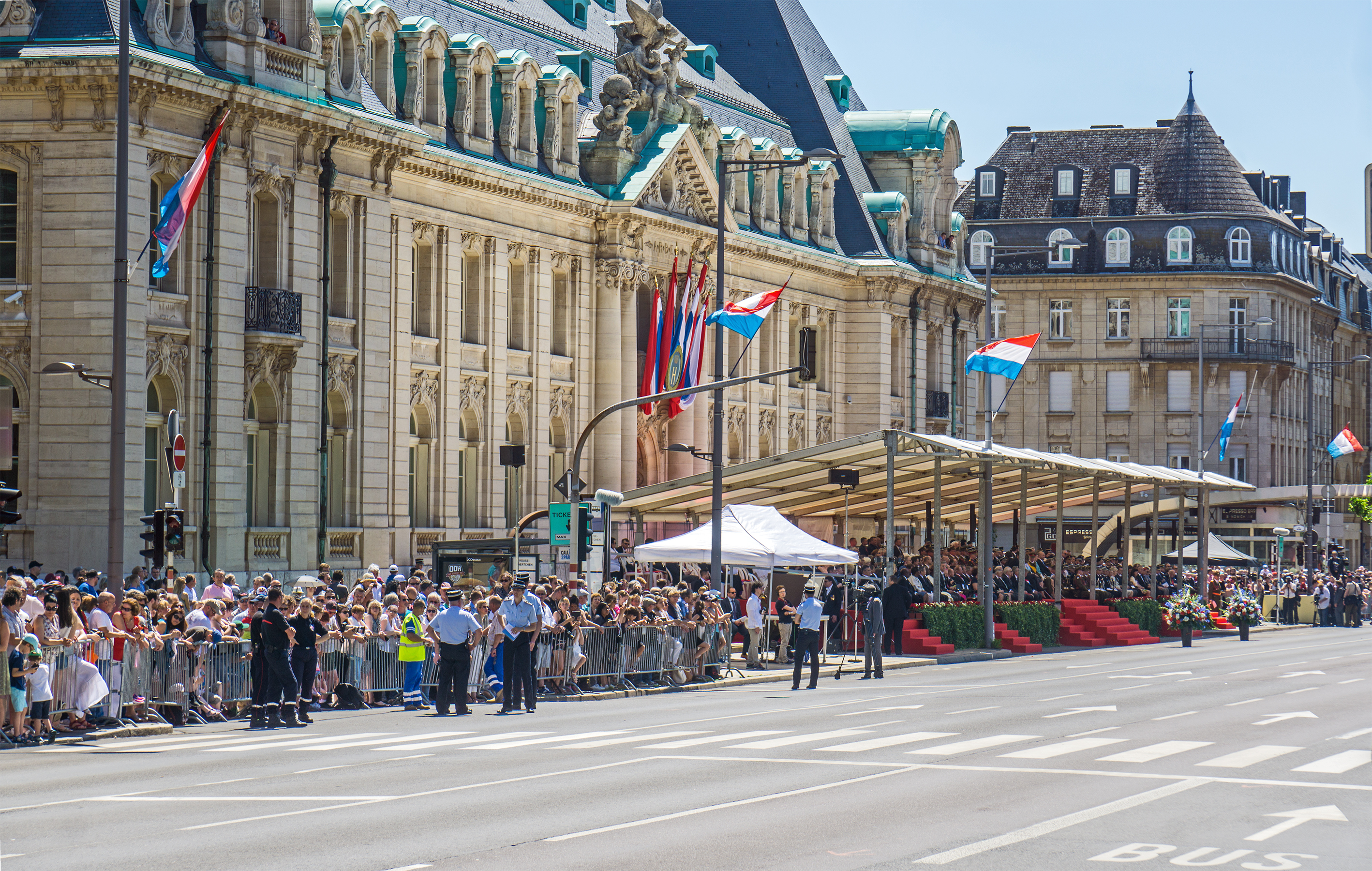 Military and civil parade on national holiday of Luxembourg